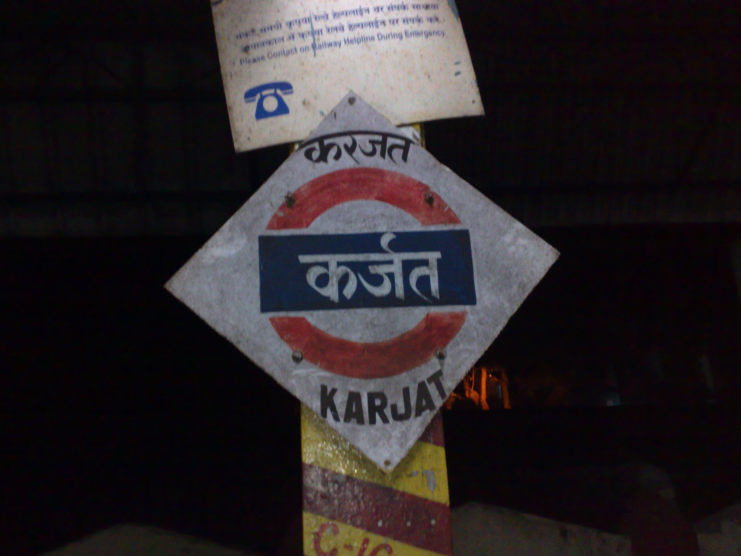 Karjat Station